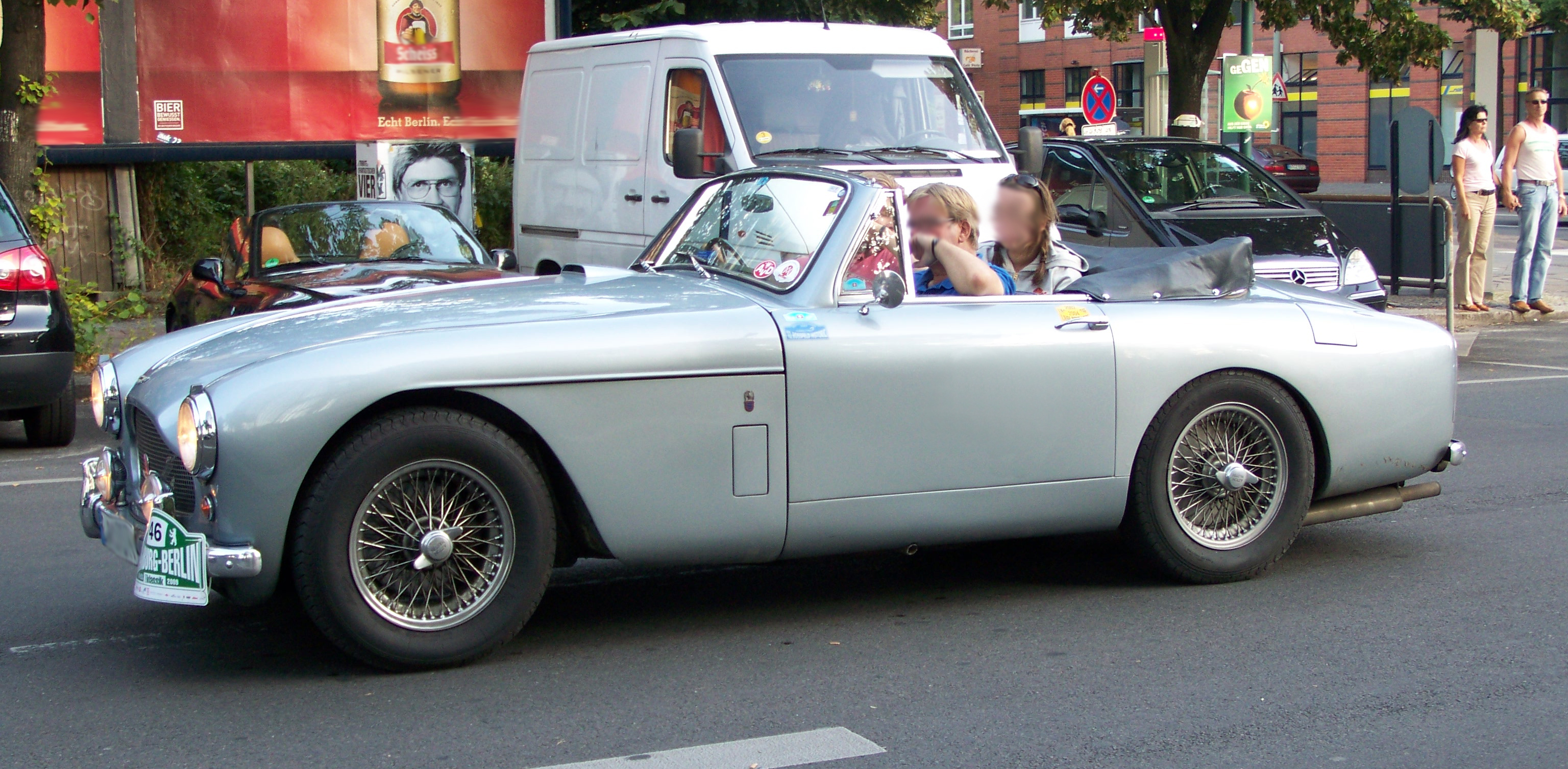 One of 84 Aston Martin DB MkIII Convertibles (1958)